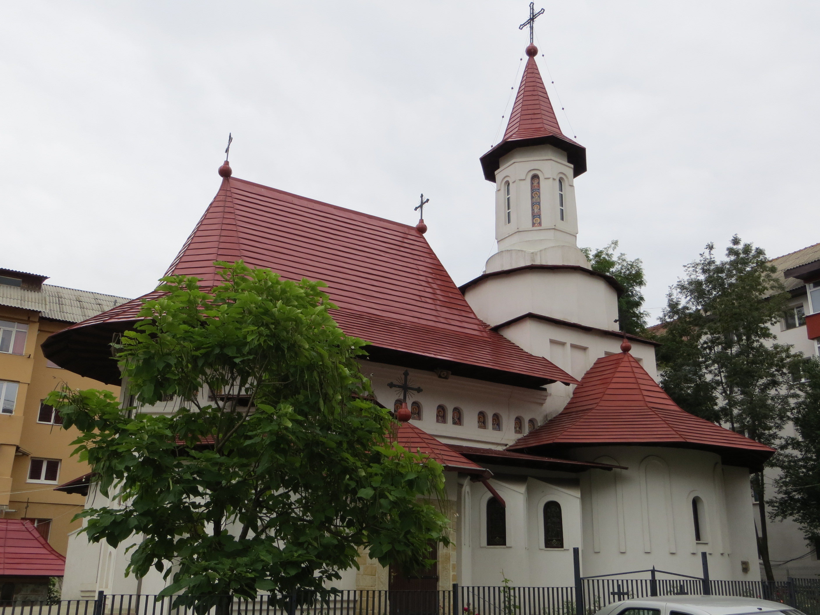 Church of Saint Menas-Obcini in Suceava.